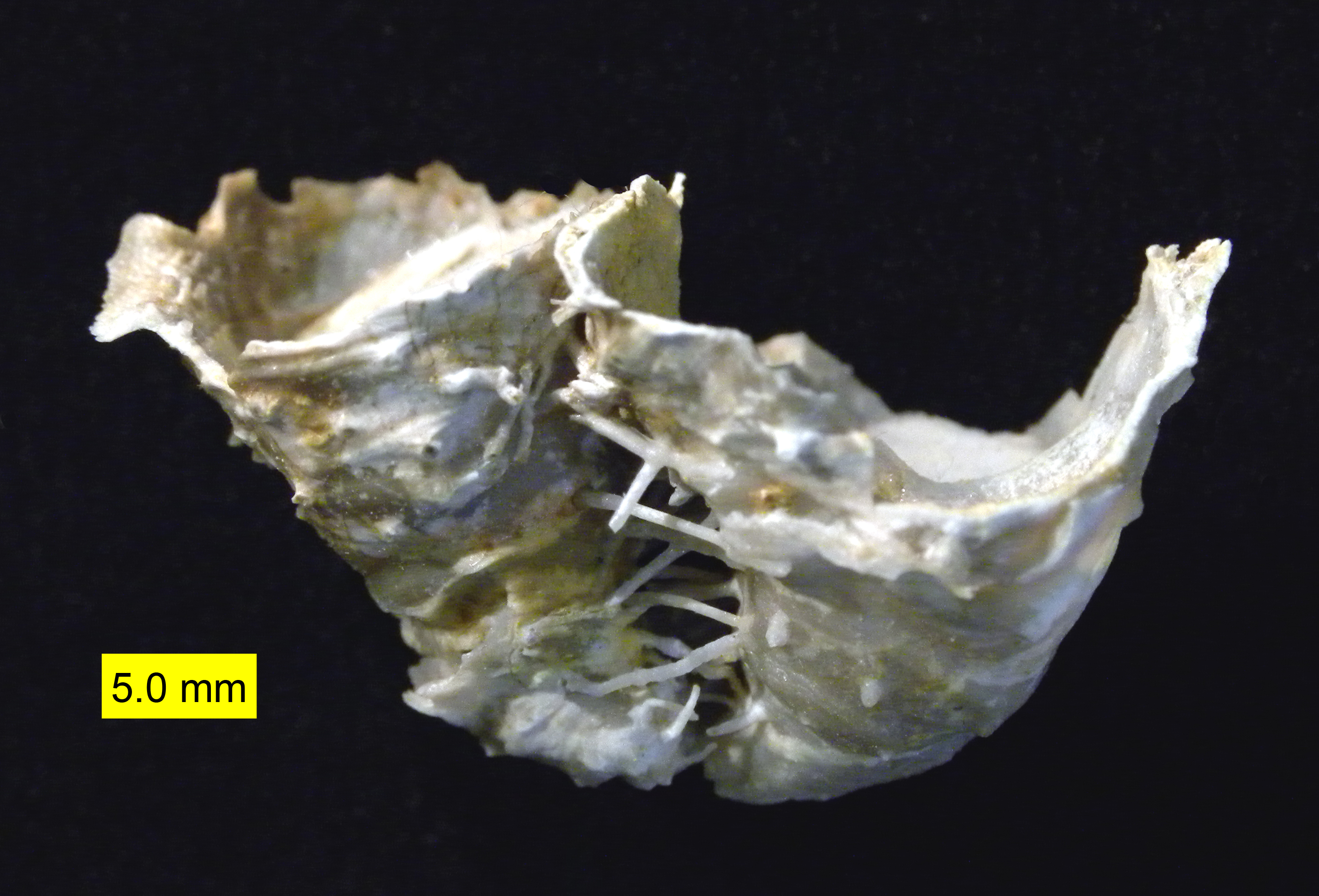 Hercosestria cribrosa Cooper & Grant 1969 (Roadian, Guadalupian, Middle Permian), Glass Mountains, Texas.